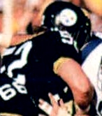 Pittsburgh Steelers' center Mike Webster pictured in an offensive play against the Los Angeles Rams during Super Bowl XIV.